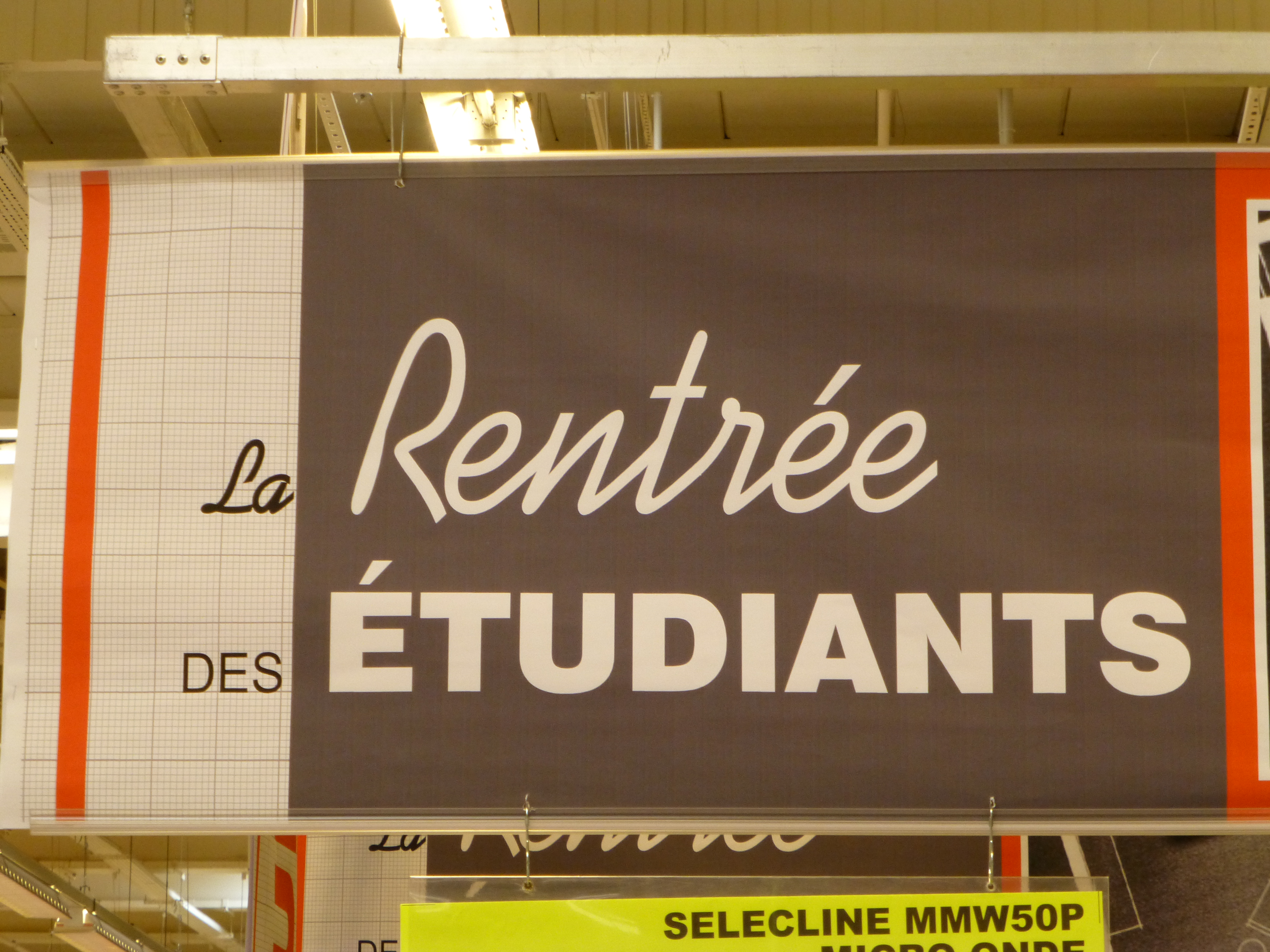 The 'Rentrée scolaire' in France after the long summer holidays is highly visible. This photograph has been taken in a supermarket at Pérols, near Montpellier, France.